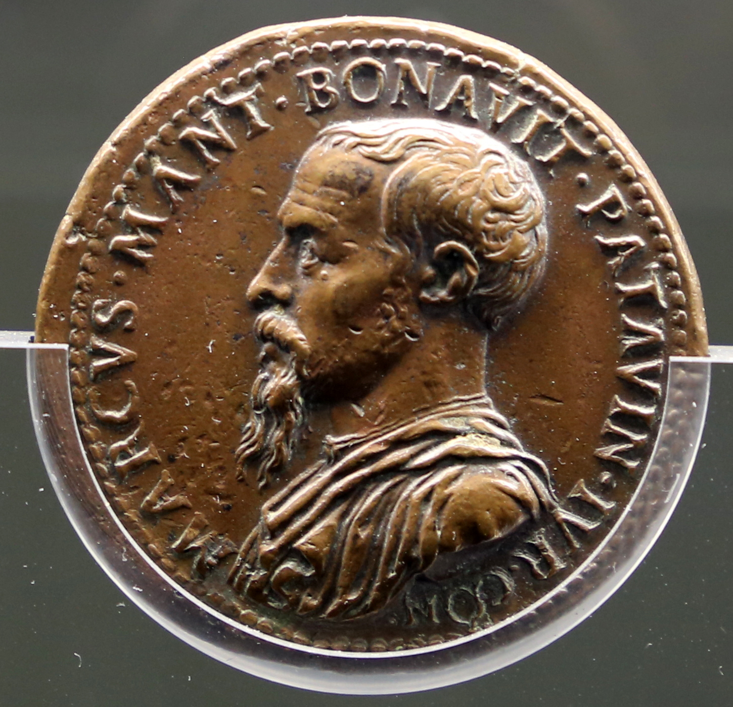 Marco Mantova Benavides (1489-1582). Medals in Palazzo Te (Mantua)